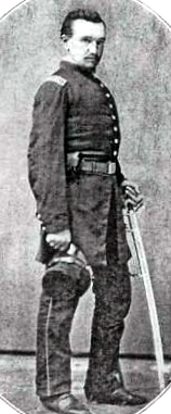 Roderick Emil Rombauer emigrant Hungarian soldiers during the American Civil War